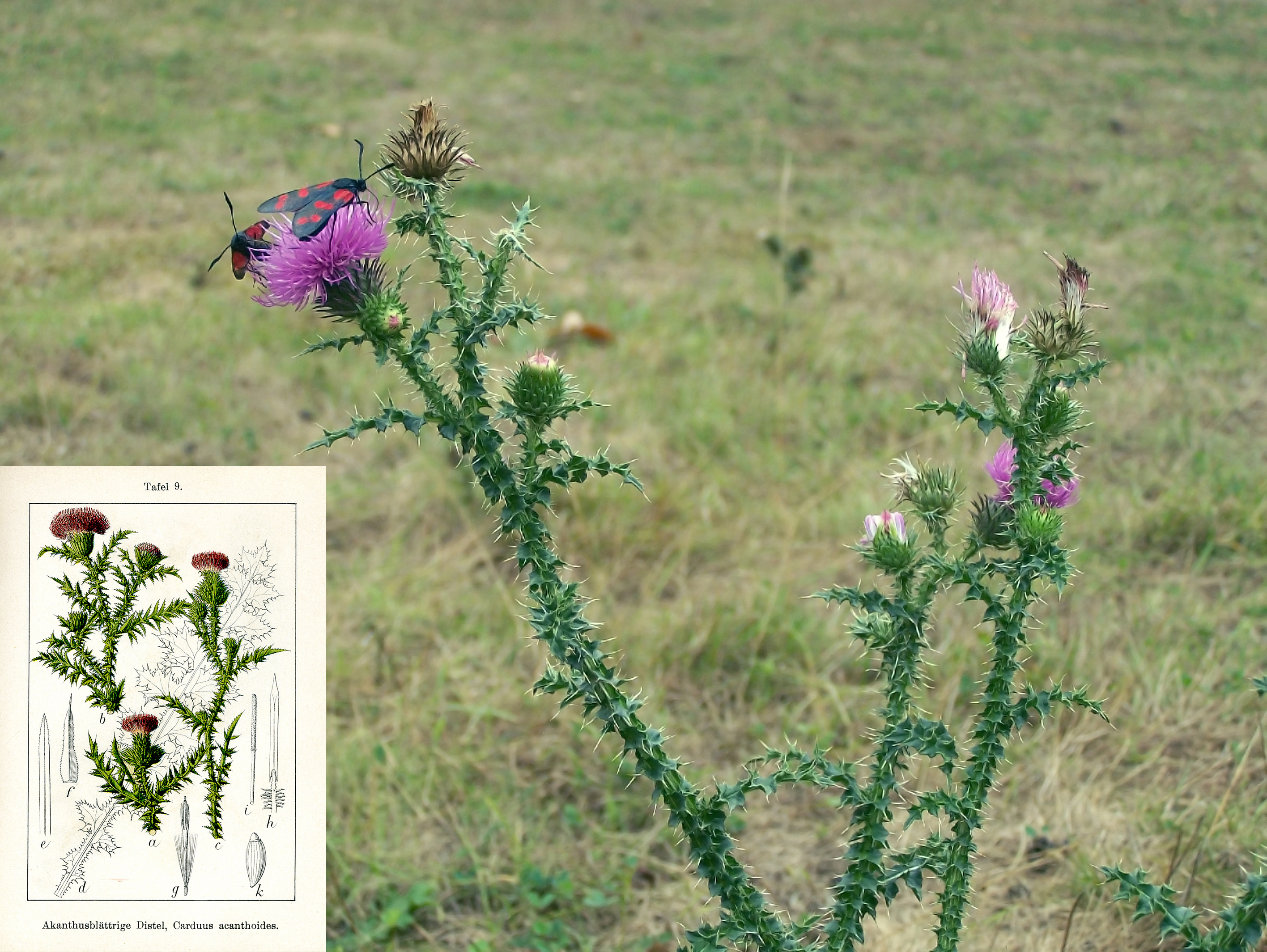 Species: Carduus acanthoides L ssp.acanthoides Common names: giant plumeless thistle, bristly or spiny thistle.